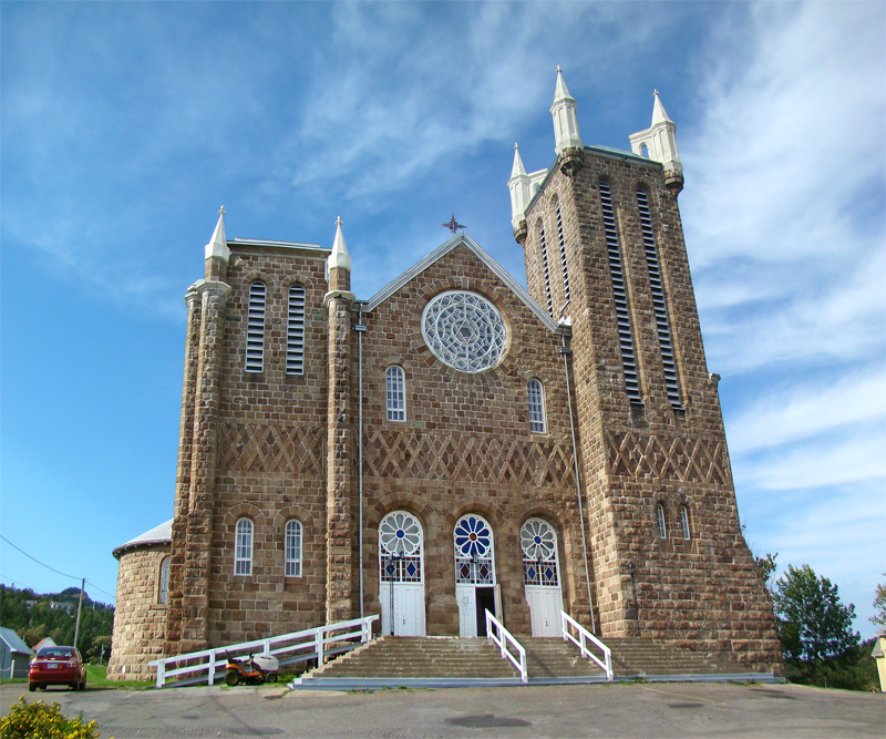 Church of Saint-Michel, Percé, Gaspésie–Îles-de-la-Madeleine, Quebec, Canada.